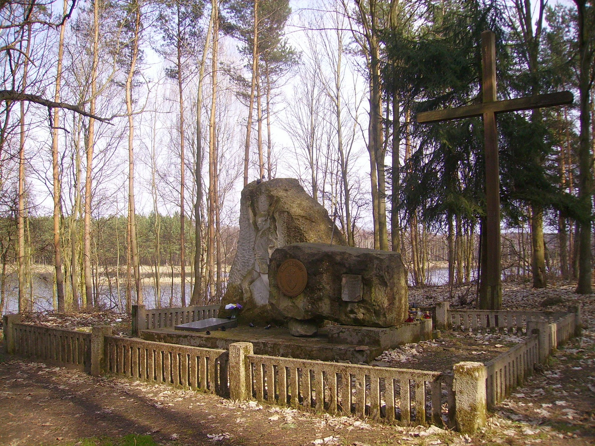 Monument of polish insurgents who died 12th of March 1863 in the battle with tzar's soldiers in Gaśno.